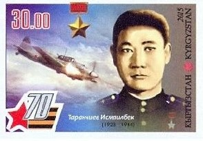 2015 Kyrgyz Pochtasy postage stamp depicting Hero of the Soviet Union Ismailbek Taranchiev for 70th anniversary of the end of WWII